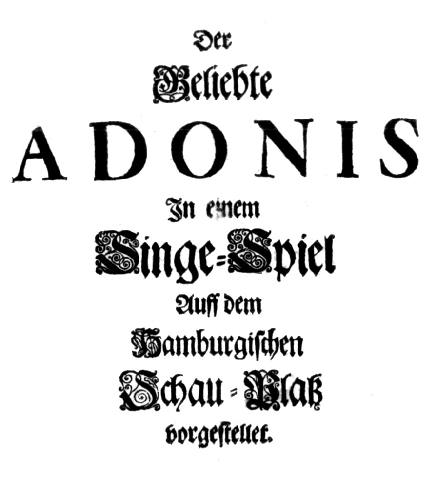 Reinhard Keiser - Der geliebte Adonis - titlepage of the libretto from 1697